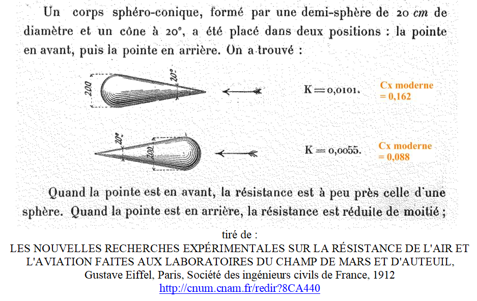 In a publication of 1912, Eiffel approaches the body of least drag with this spherical-conical body.